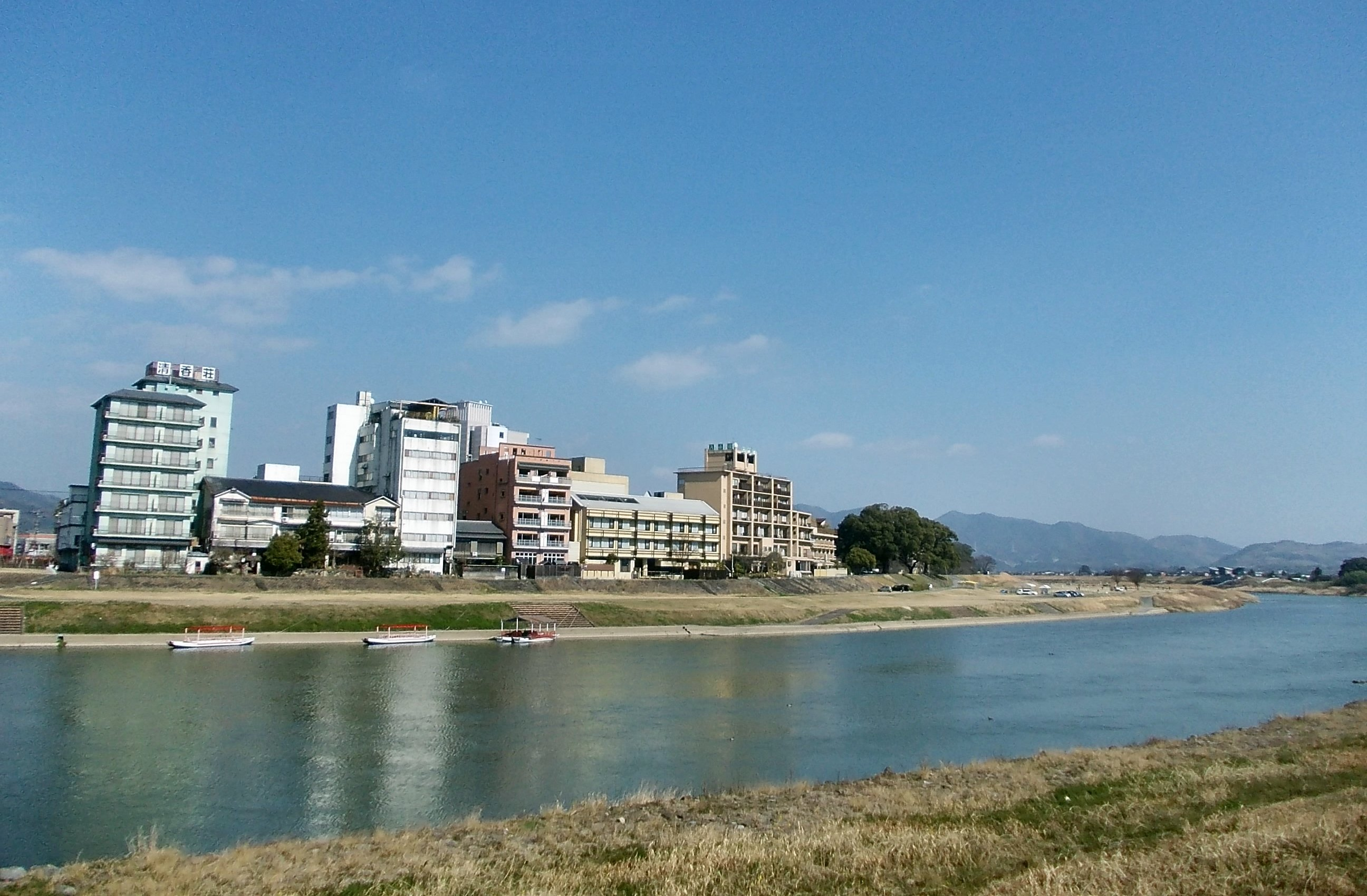 Harazuru Onsen hot springs, Asakura, Fukuoka, Japan. The spa town is spread on sandbar that have been surrounded by the Chikugo River and its drainage.